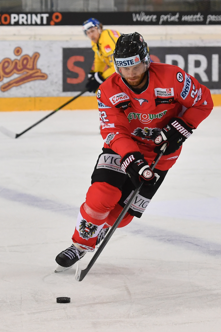 6/4/2017, Vienna, Austria, Sport, Ice Hockey, Friendly match Austria vs Sweden.